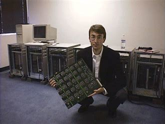 Paul Kocher and Deepcrack